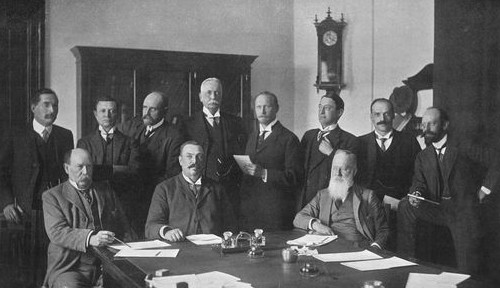 The first cabinet of the Union of South Africa in 1910 under the leadership of Prime Minister Louis Botha Back: J. B. M. Hertzog, Henry Burton, F. R. Moor, C. O'Grady Gubbins, Jan Smuts, H. C. Hull, F. S. Malan, David Graaff Front: J. W. Sauer, Louis Botha, Abraham Fischer